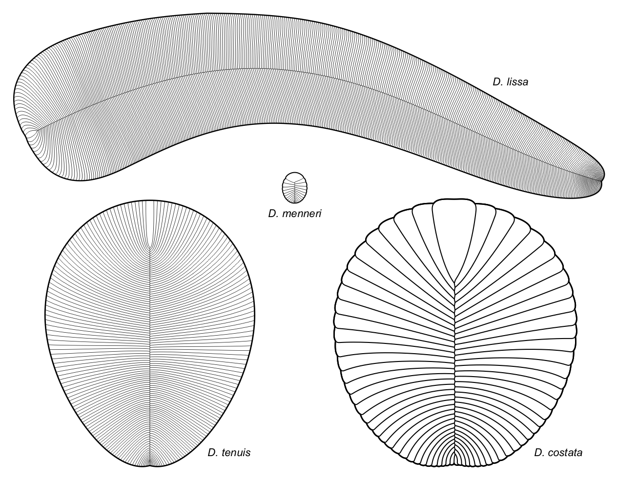 Schematic reconstructions of Dickinsonia costata, Dickinsonia lissa, Dickinsonia menneri, Dickinsonia tenuis.